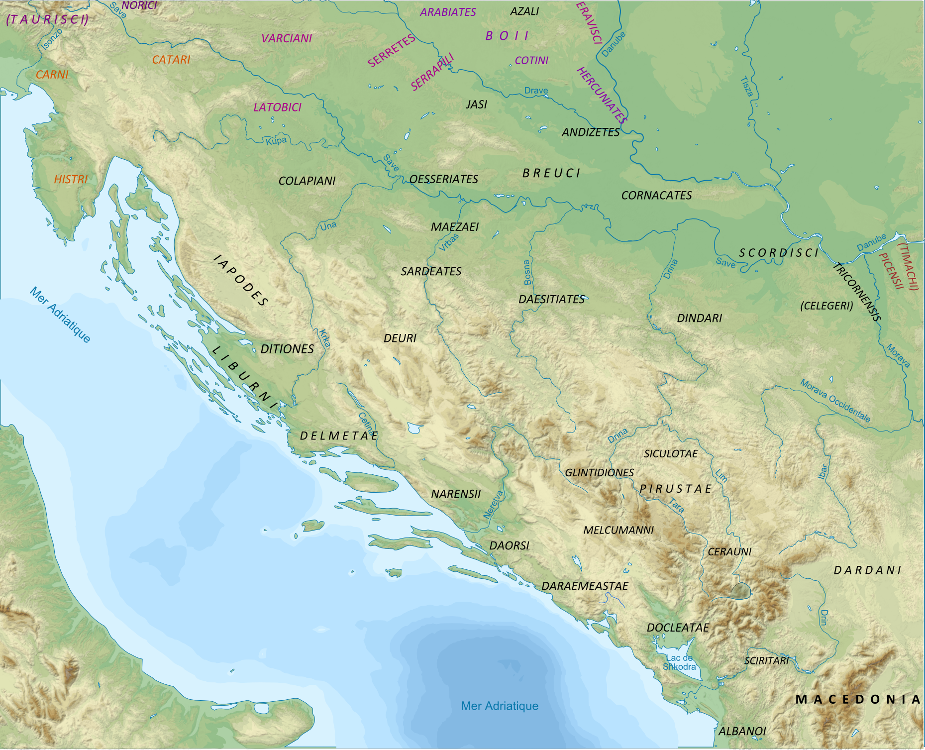 Created by Hxseek (2008) Sources: The Illyrians. John Wilkes. Blackwell Publishing. ISBN 0-631-19807-5 The Celts. A History. Daithi O Hogain. Boydell Press. ISBN 0-85115-923-0 Pannonia and Upper Moesia. A History of the Middle Danube Provinces of the Roman Empire. A Mocsy, S Frere. Map template used from that created by Andrei Nacu